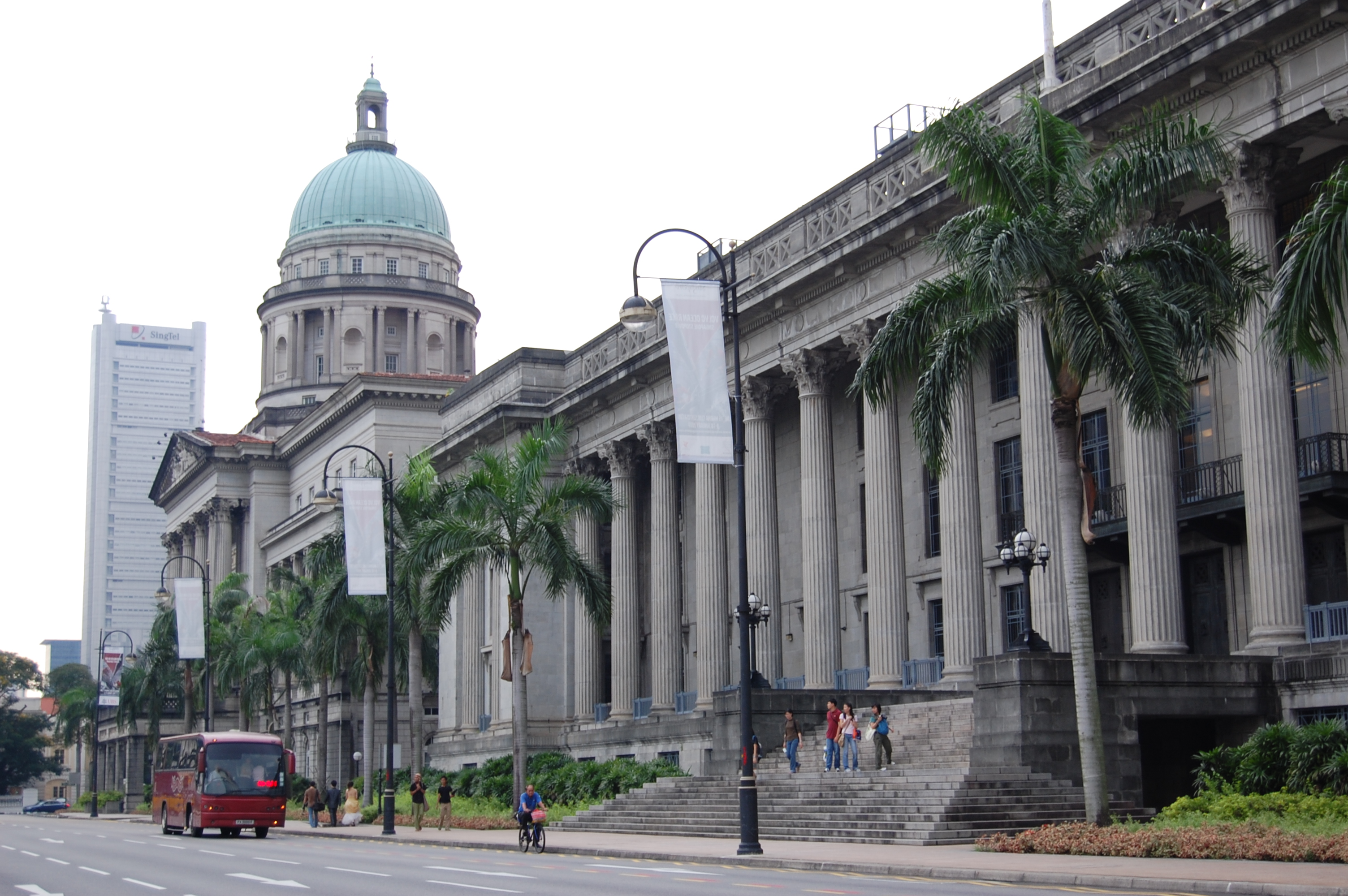 City Hall and Old Supreme Court